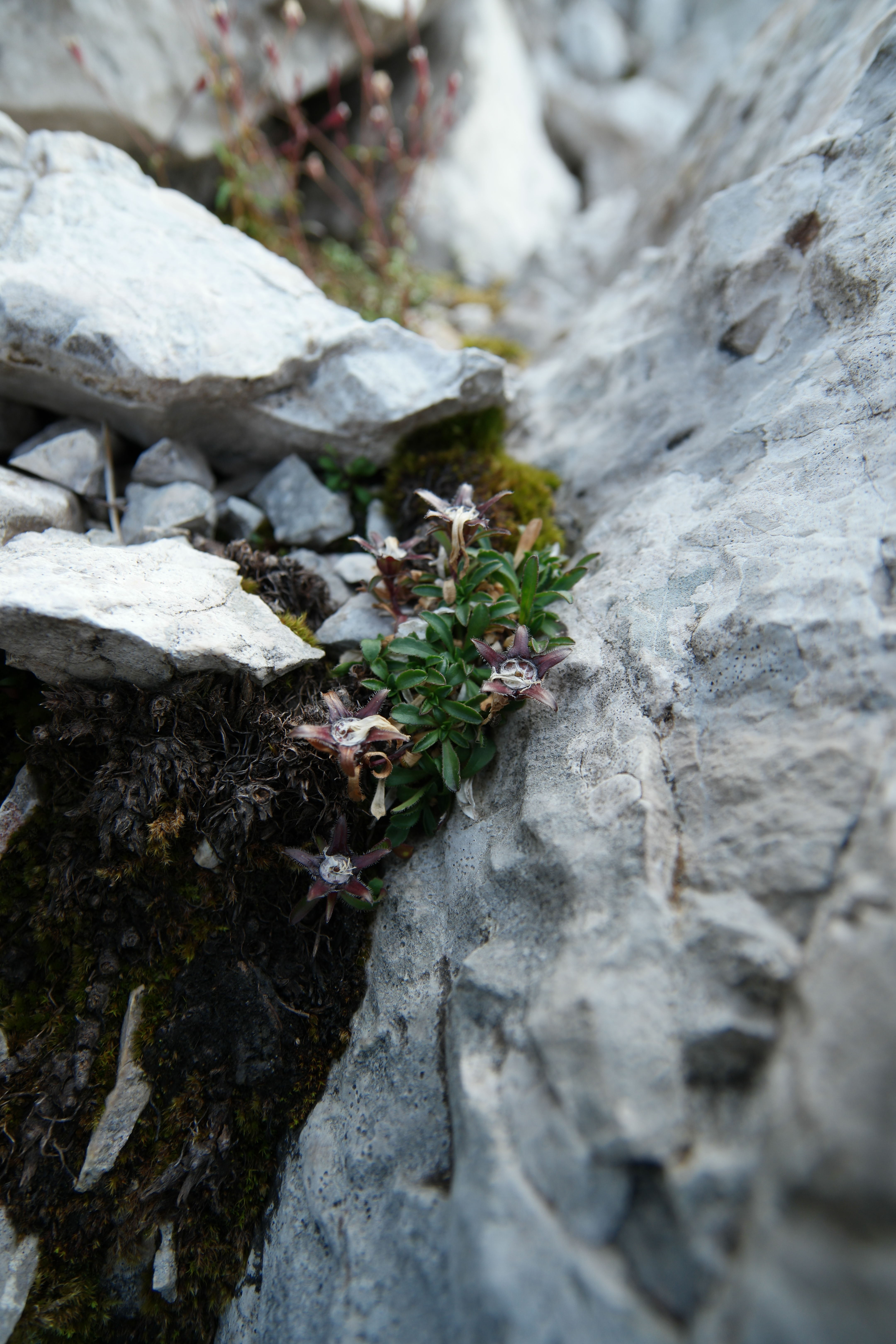 Edraianthus serpyllifolius leg P.Cikovac Opuvani do Velika Jastrebica